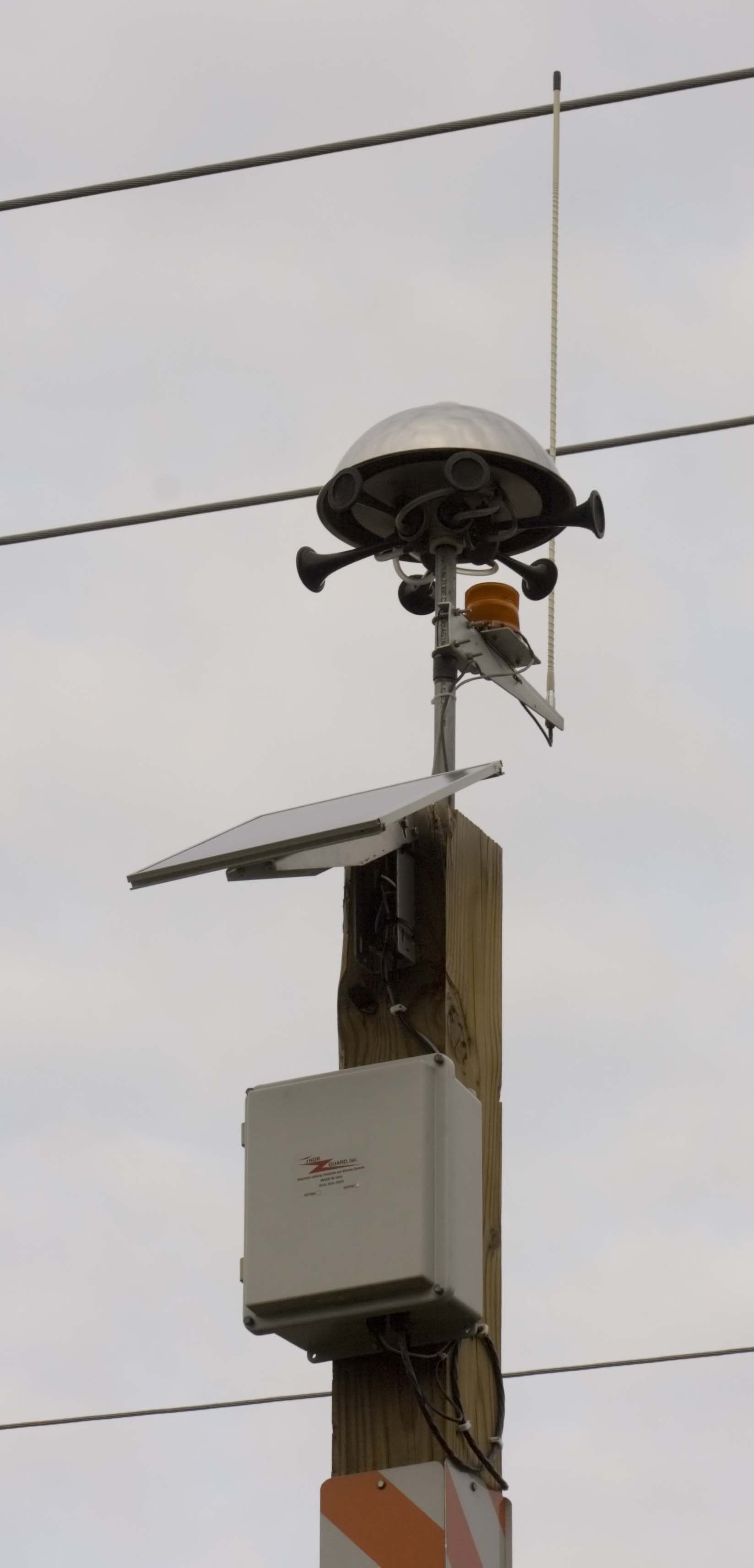 A Thor Guard Lightning Prediction System, as deployed by the Niles Parks District, Niles, Illinois, United States